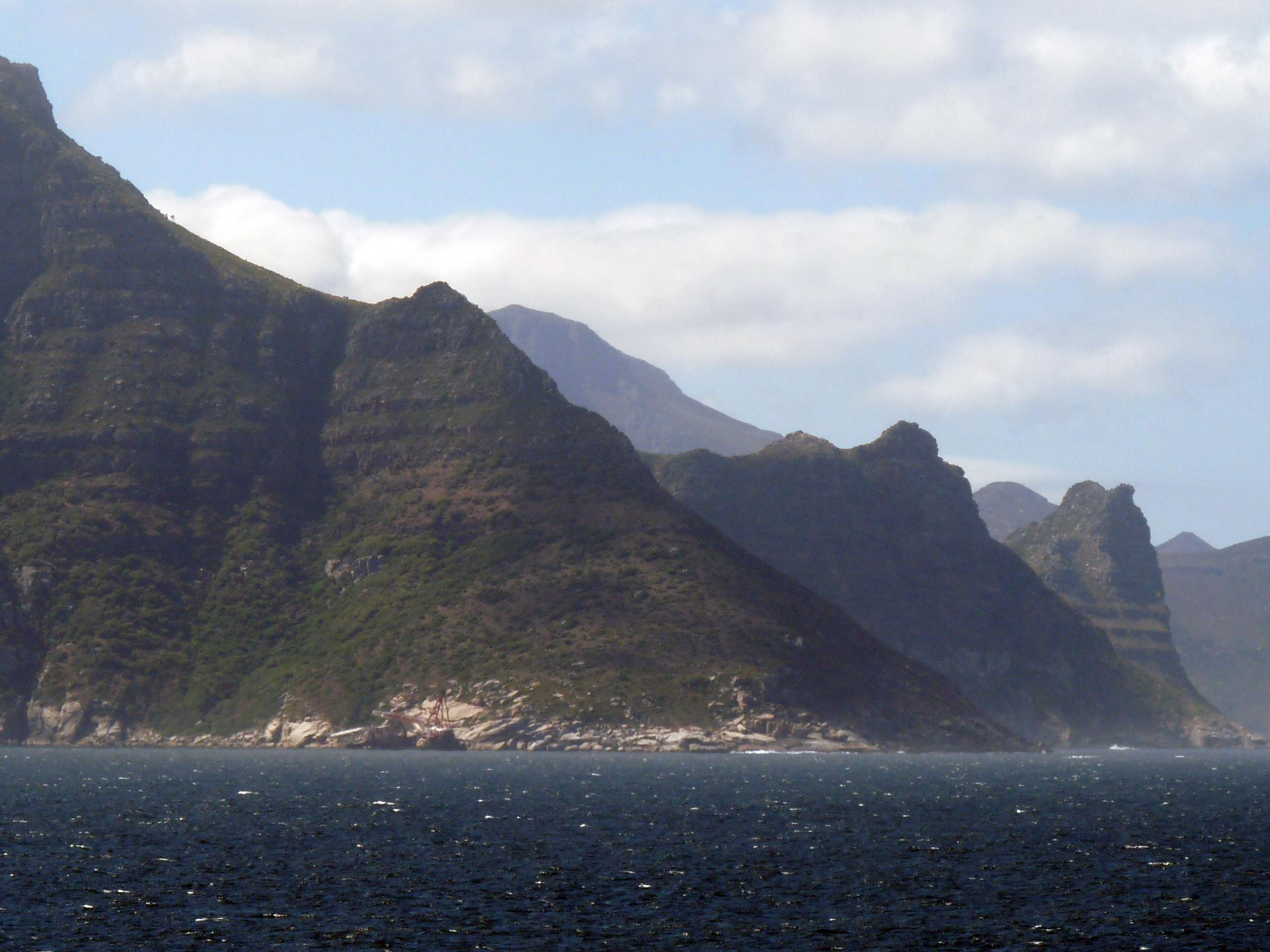 View from the west of Duiker Point below the Karbonkelberg, with the Sentinel to the right, and the wreck of the Bos 400 in the centre. (Not Hanklip, which is about 50km to the southeast of this area)